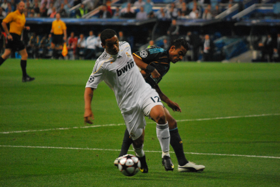 UEFA Champions League Real Madrid 3 - O.Marsella 0 30/09/09 Marcelo (white - Madrid) v Fabrice Abriel (black - Marseille)